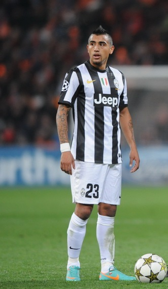 Arturo vidal players of juventus number 23